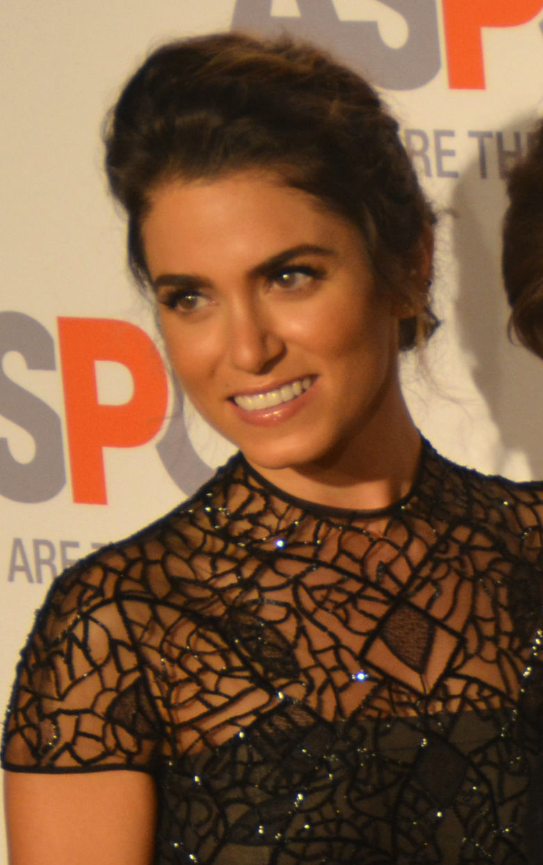 Actresses Nikki Reed, Milla Jovovich and Kaley Cuoco at the 2014 ASPCA Compassion Awards on October 22, 2014